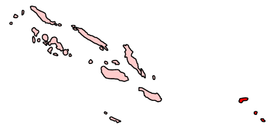 Map of the Solomon Islands showing Temotu province. Made by User:Golbez.